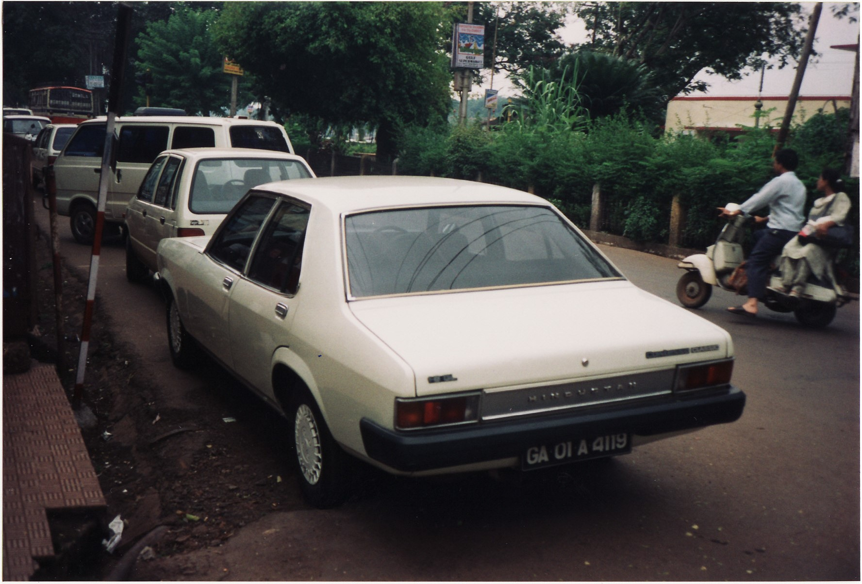 Hindustan Contessa Classic 1.8 GL, spotted in Goa, India, October 1994. Powered by Isuzu. Built on tooling from Vauxhall Victor FE series.